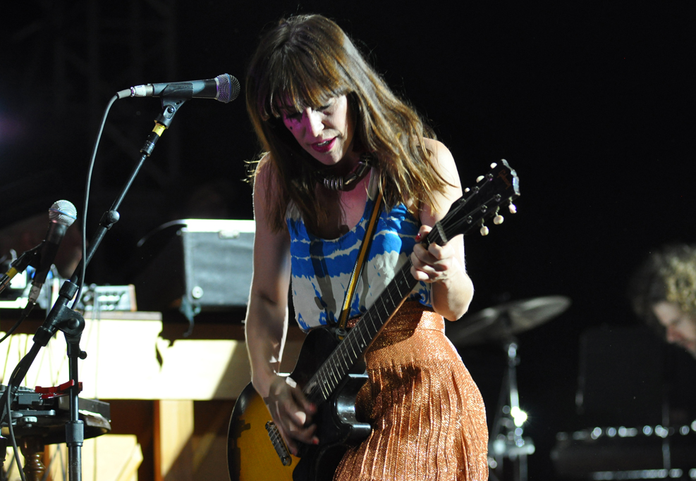 Feist, Coachella 2012, Day two, Saturday, April 21, 2012